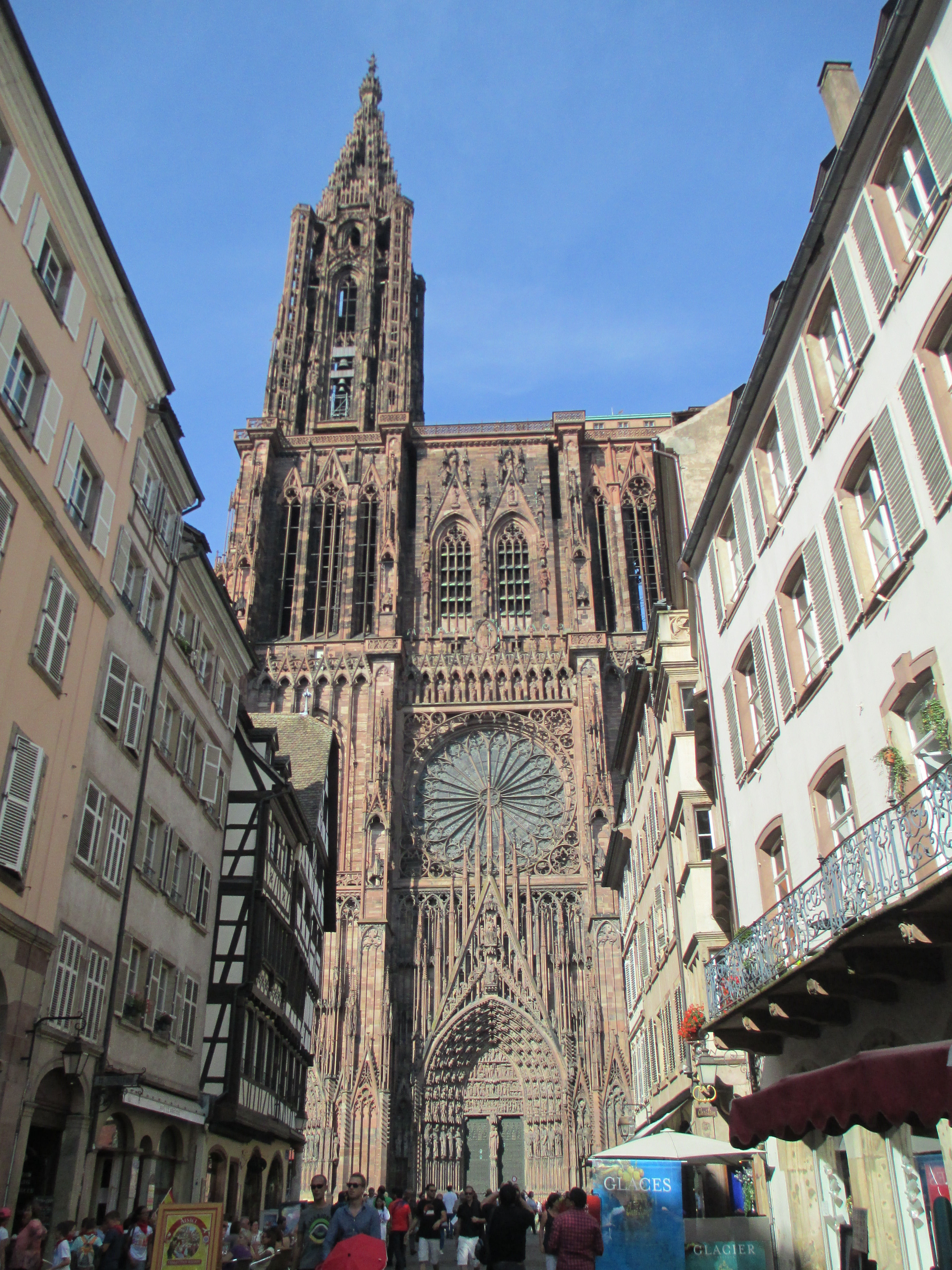 West facade of Notre-Dame de Strasbourg seen from rue Mercière